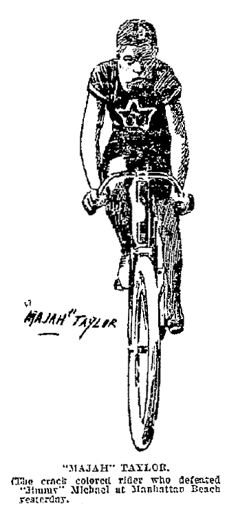 Major Taylor after he defeated "Jimmy" Michael at Manhattan Beach on August 27, 1898